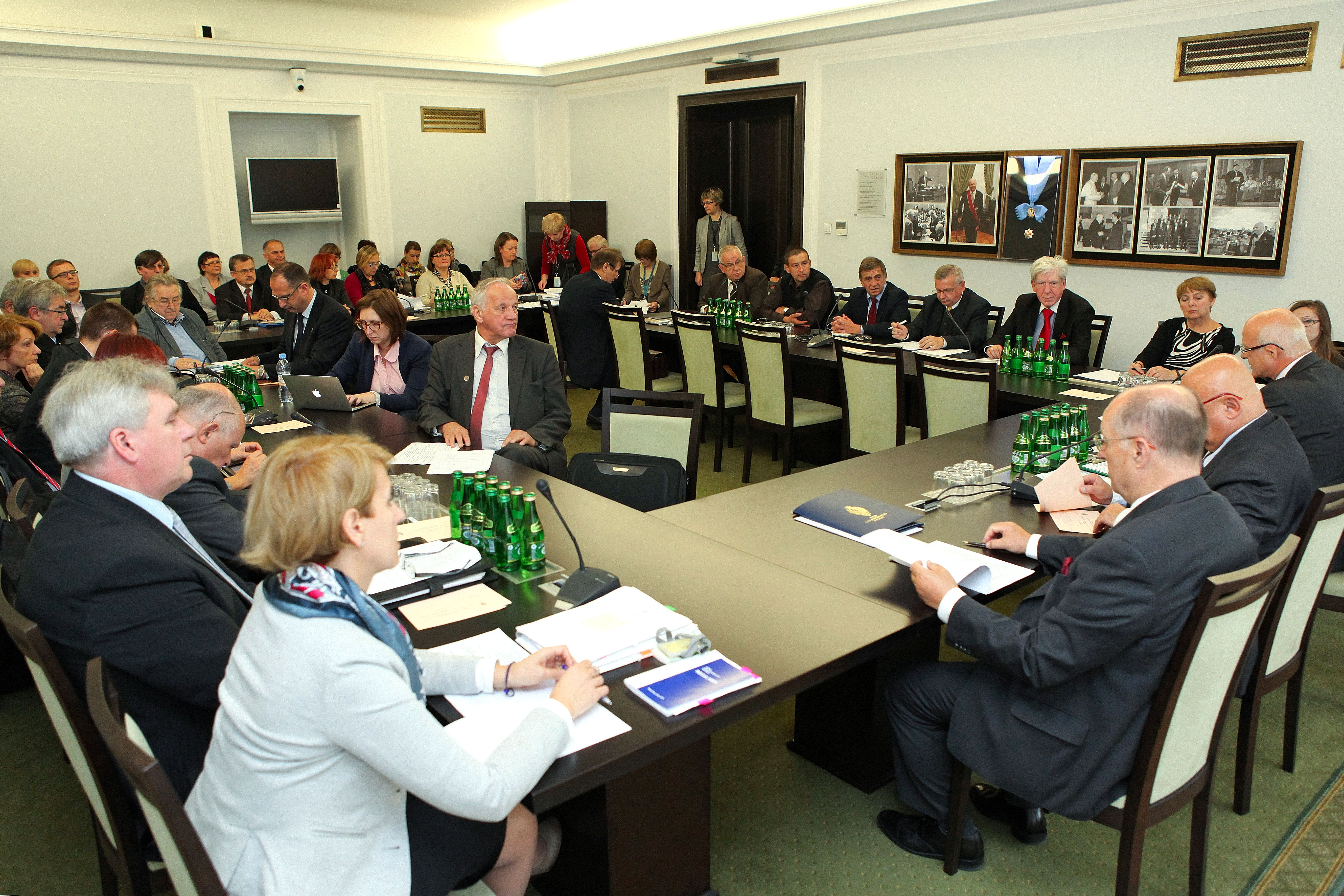 Public hearing on the Bill on Petitions in the Polish Senate